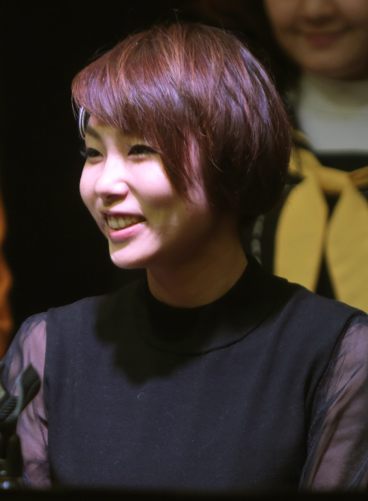 Yuko Sanpei speaking at Taiyou Con 2017 in Mesa, Arizona.